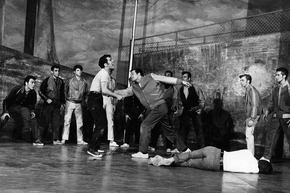 Photo of the rumble segment from West Side Story where Tony stabs Bernardo after he stabs Riff.